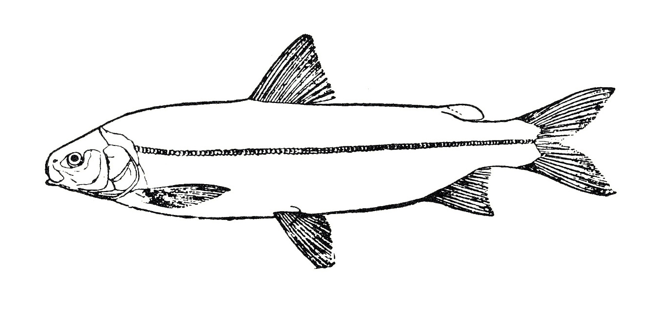 Illustration from Brockhaus and Efron Encyclopedic Dictionary (1890—1907)